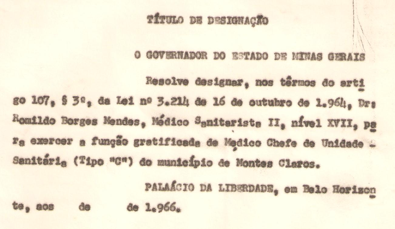 Arquivo Memorial Dr. Romildo Borges Mendes